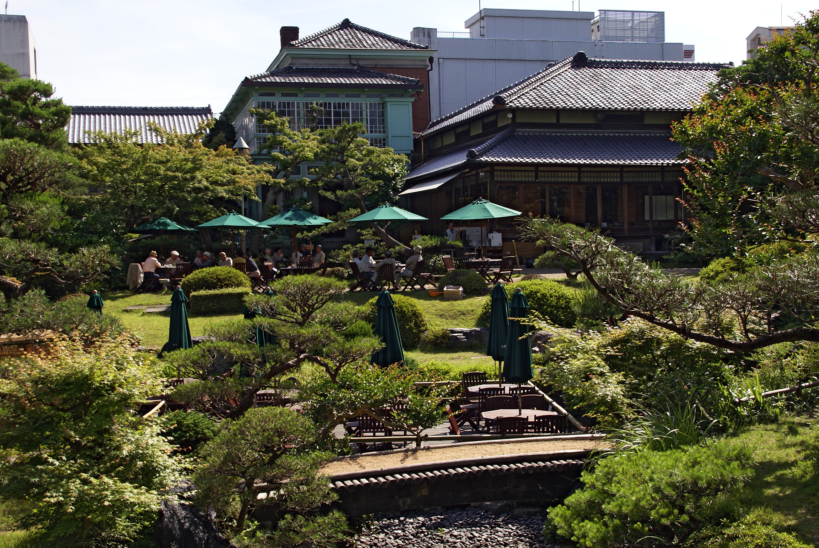 Rakurakuso in Kameoka, Kyoto prefecture, Japan